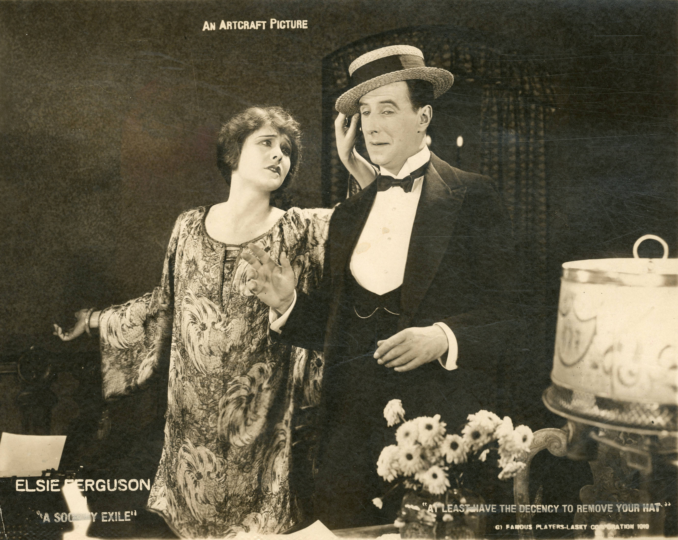 Still from the American silent drama film A Society Exile (1919) with Elsie Ferguson and an unidentified actor.